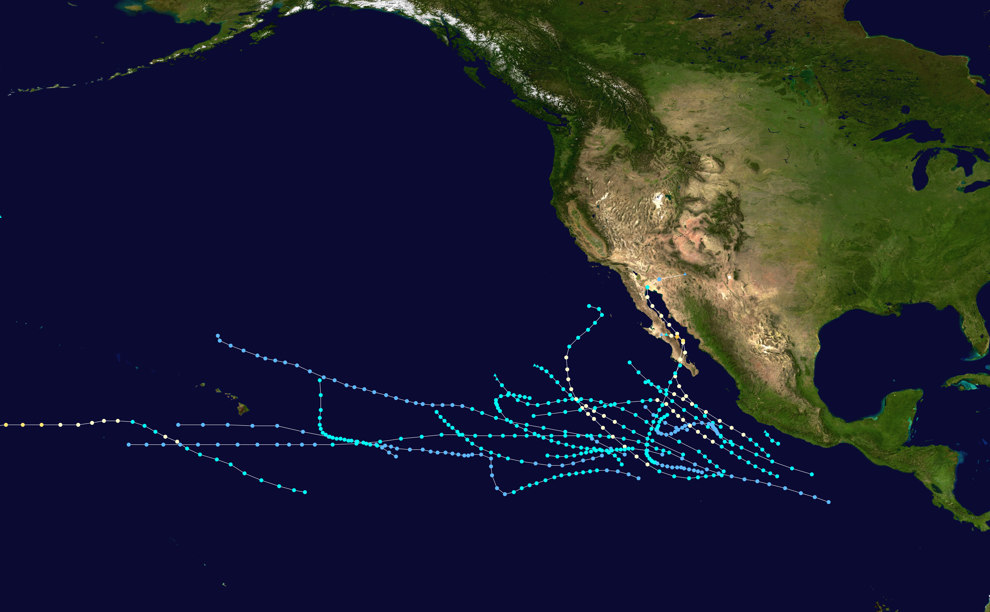 This map shows the tracks of all tropical cyclones in the 1967 Pacific hurricane season. The points show the location of each storm at 6-hour intervals. The colour represents the storm's maximum sustained wind speeds as classified in the Saffir-Simpson Hurricane Scale (see below), and the shape of the data points represent the type of the storm. Saffir–Simpson hurricane wind scale Tropical depression≤38 mph≤62 km/h Category 3111–129 mph178–208 km/h Tropical storm39–73 mph63–118 km/h Category 4130–156 mph209–251 km/h Category 174–95 mph119–153 km/h Category 5≥157 mph≥252 km/h Category 296–110 mph154–177 km/h Unknown Storm typeTropical cycloneSubtropical cycloneExtratropical cyclone / Remnant low / Tropical disturbance